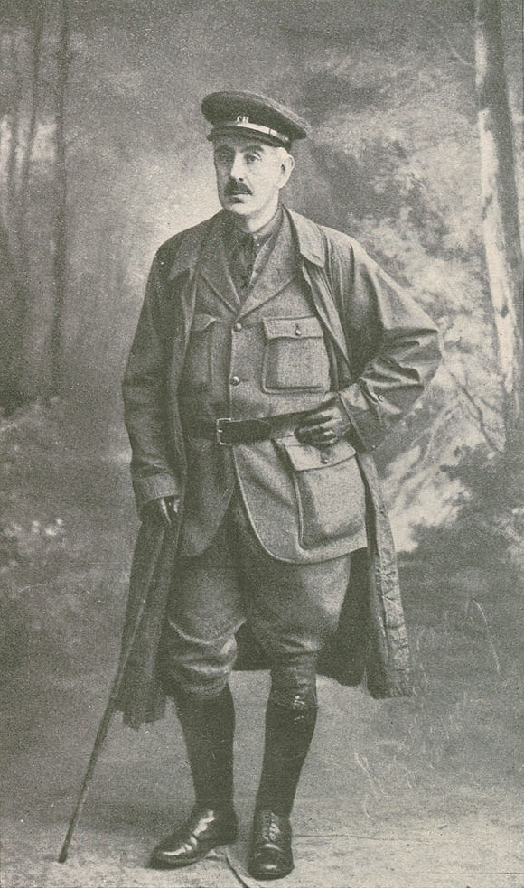 Hamilton Fyfe, c. 1917.